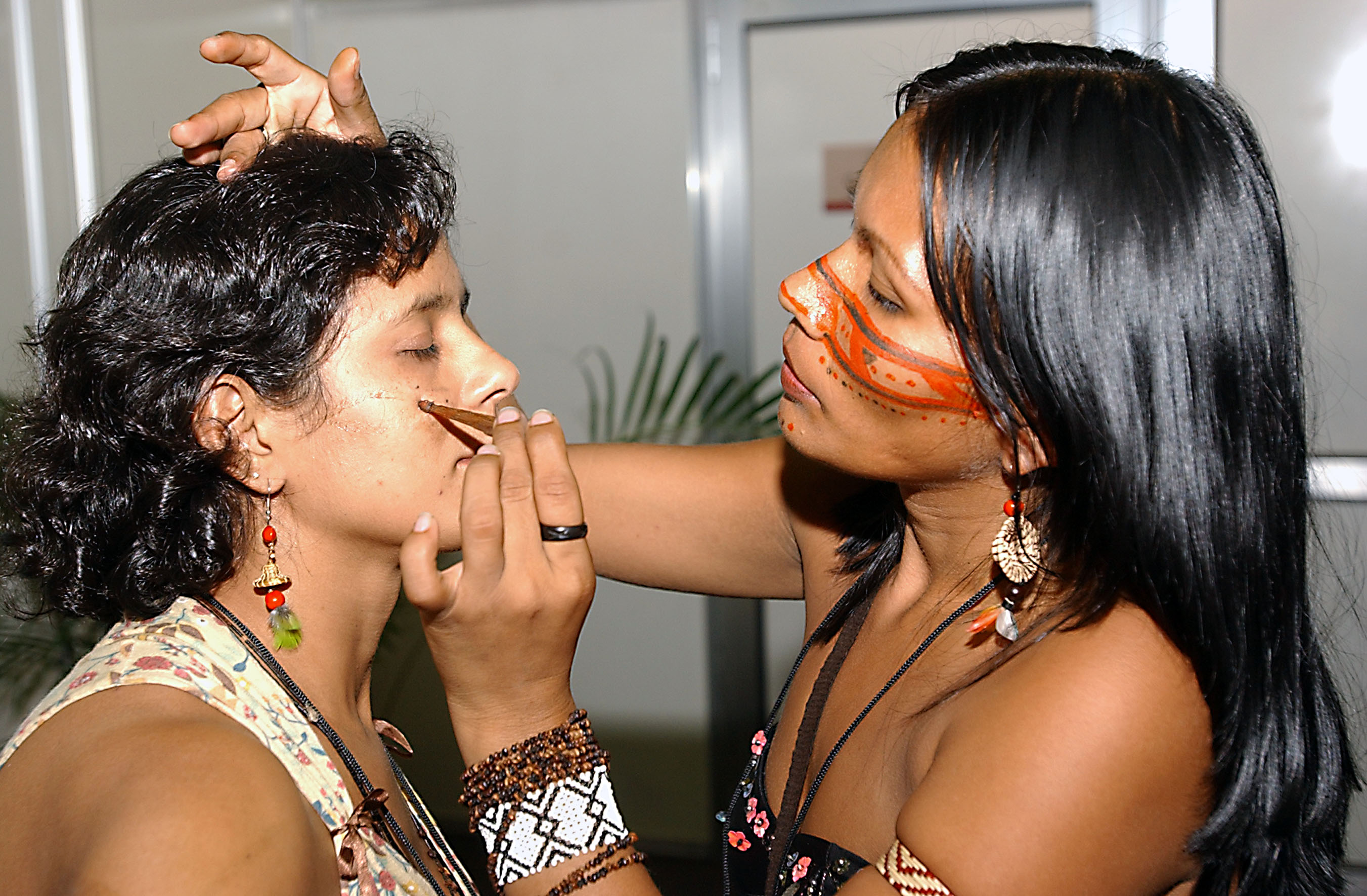 An Indian woman paints the face of another woman at a conference for native peoples in Brasilia.